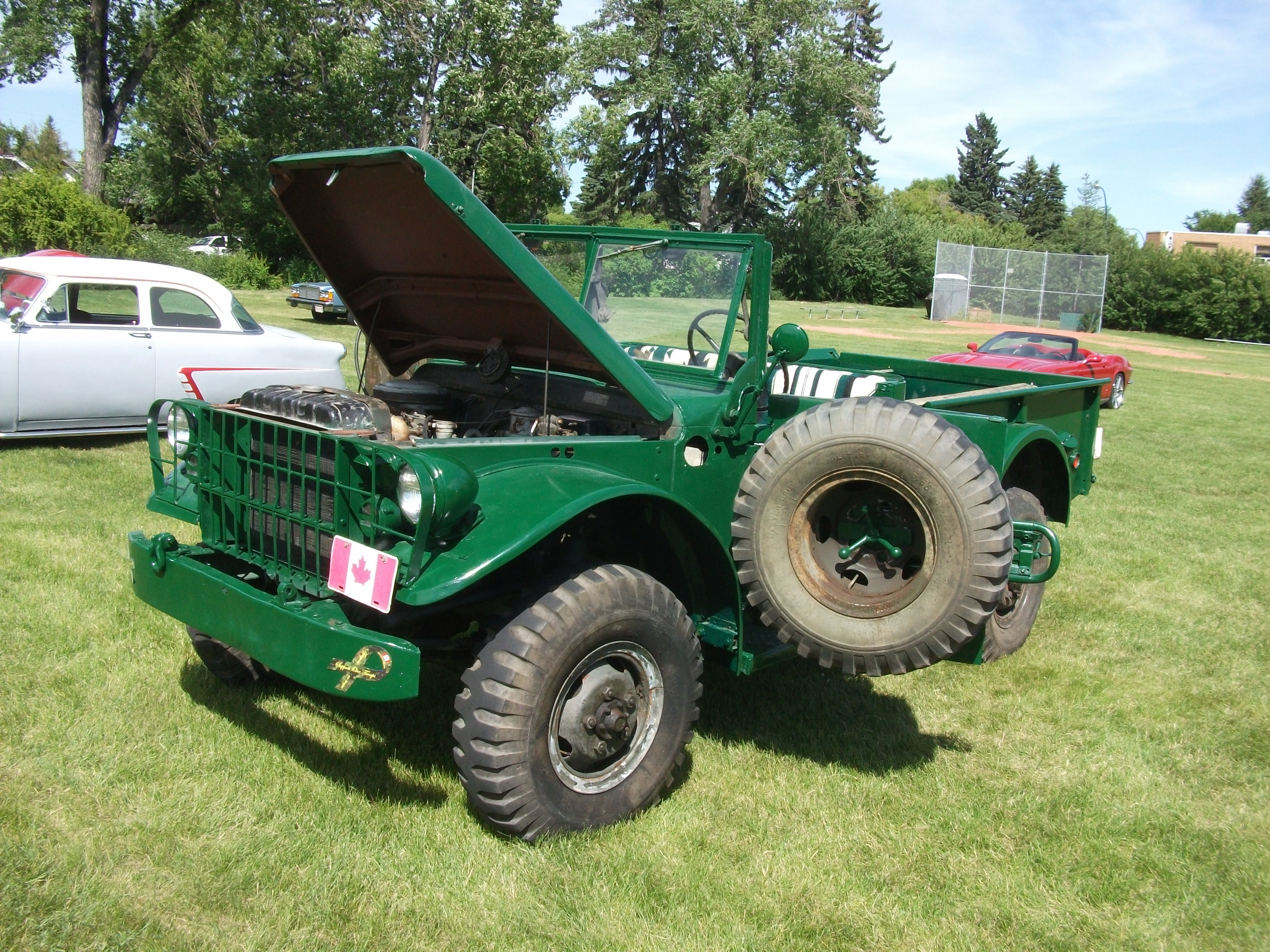 1952 Dodge M-37 ex-Canadian military truck